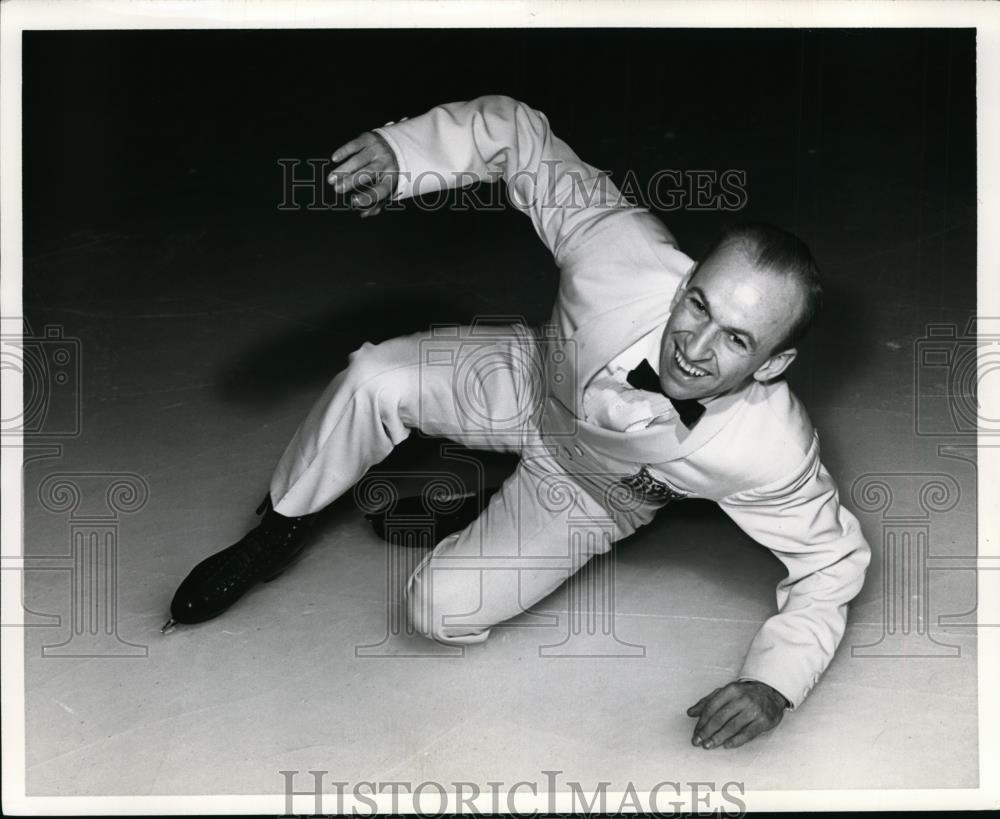 1961 Press Photo David Jenkins figure skater on the ice